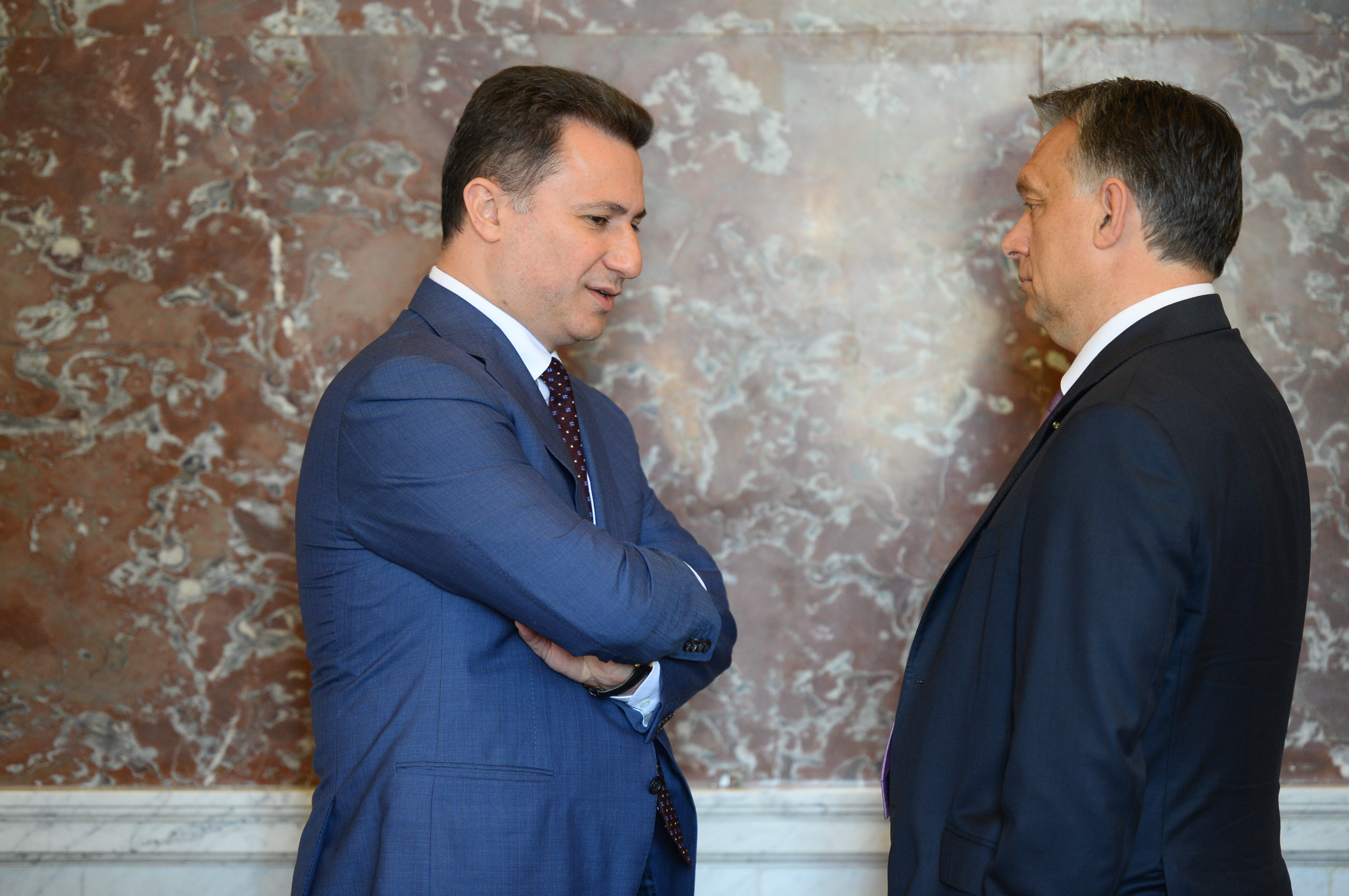 EPP Summit, Brussels, June 2015; Viktor Orbán